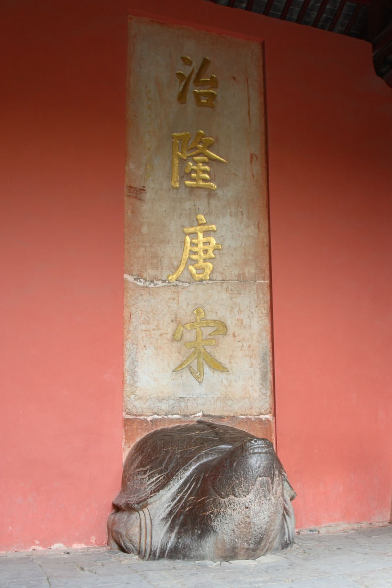 The stele with the Kangxi Emperor's handwriting in honor of the Hongwu Emperor, at the Hongwu's Ming Xiaoling Mausoleum at Nanjing